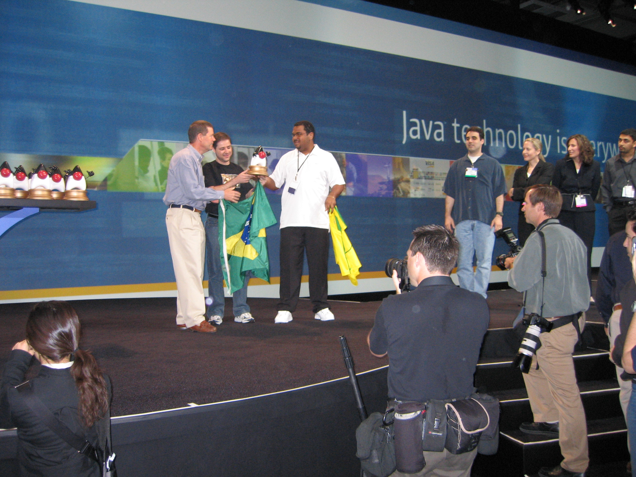 Recipients queue up for the Duke's Choice Award at JavaOne 2004